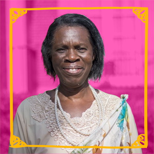 This work, "Godelieve Mukasarasi colored", is a derivative of "Godelieve Mukasarasi (Rwanda) square.jpg" by U.S. Department of State, used under Public Domain. "Godelieve Mukasarasi colored" is licensed under CC BY-SA 4.0 by Tinaral.